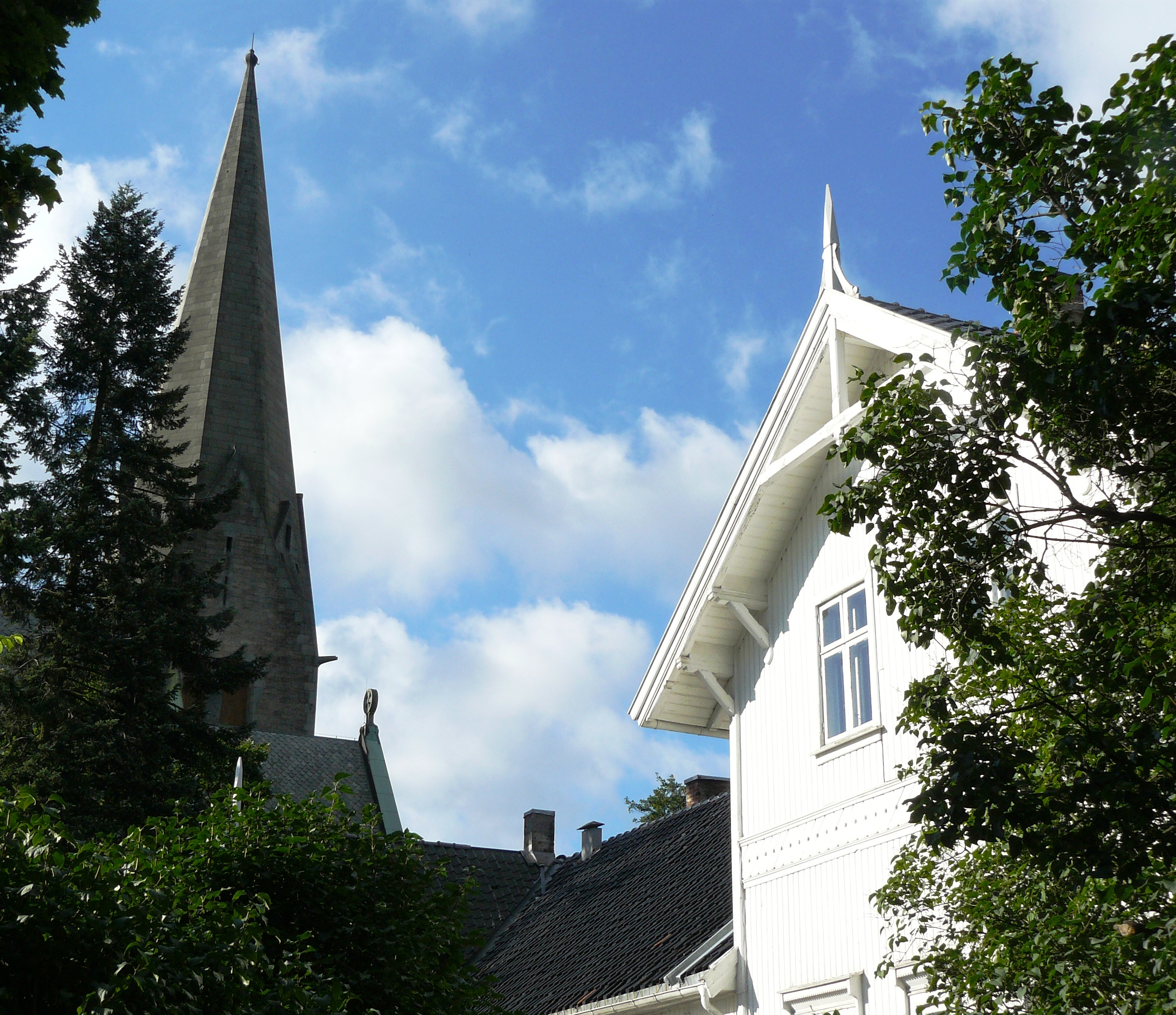 Vålerenga church and rectory, Oslo. Designed in the Nordic Medieval-Gothic revival National Romantic style.